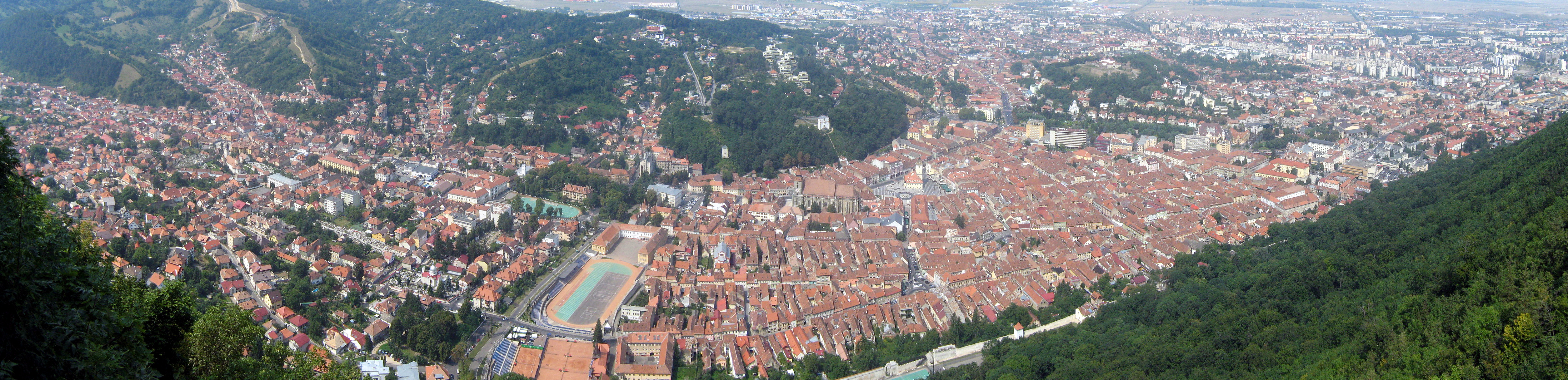 Panorama of West Brașov. Picture taken from the hill Tâmpa.